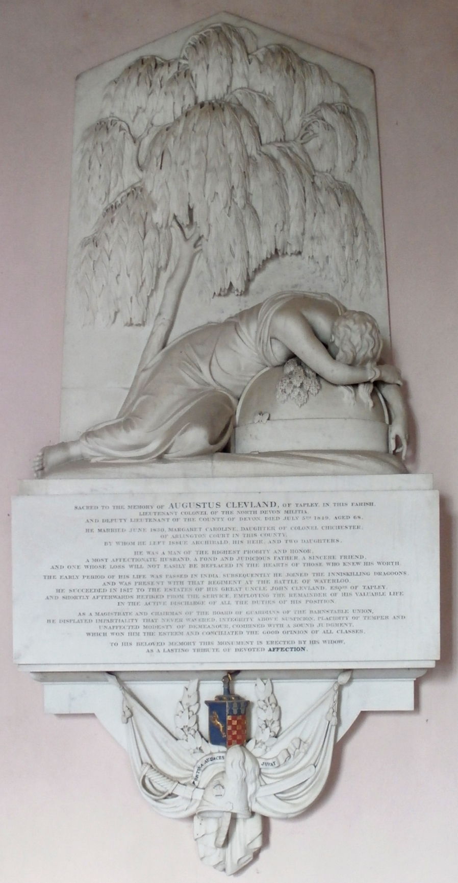 Mural Monument to Lt.Col. Augustus Clevland (1781-1849) of Tapeley, in the parish of Westleigh, Devon. North wall of Westleigh Church. Inscription: Sacred to the memory of Augustus Clevland of Tapley in this parish, Lieutenant Colonel of the North Devon Militia and Deputy Lieutenant of the county of Devon. Died July 5th 1849 aged 68. He married June 1830 Margaret Caroline, daughter of Colonel Chichester of Arlington Court in this county, by whom he left issue Archibald his heir and two daughters. He was a man of the highest probity and honor, a most affectionate husband, a fond and judicious father, a sincere friend and one whose loss will not easily be replaced in the hearts of those who knew his worth. The early period of his life was passed in India. Subsequently he joined the Inniskilling Dragoons and was present with that regiment at the Battle of Waterloo. He succeeded in 1817 to the estates of his great-uncle John Clevland Esq.re of Tapley and shortly afterwards retired from the service, employing the remainder of his valuable life in the active discharge of all the duties of his position. As a magistrate and chairman of the Board of Guardians of the Barnstaple Union he displayed impartiality that never wavered, integrity above suspicion, placidity of temper and unaffected modesty of demeanour, combined with a sound judgement which won him the esteem and concilliated the good opinion of all classes. To his beloved memory this monument is erected by his widow as a lasting tribute of devoted affection". Below are the arms of Clevland impaling Chichester, above which is the crest of Clevland. Below is the Motto of Clevland: Fortuna Audaces Juvat ("Fortune aids the Bold")